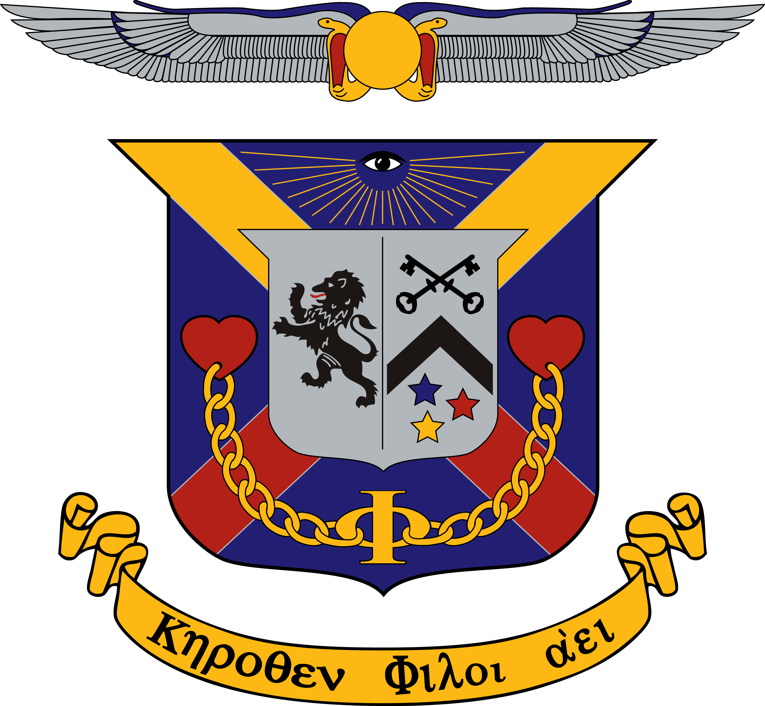 Coat of Arms released on a blog for public use. Updated version of the crest.